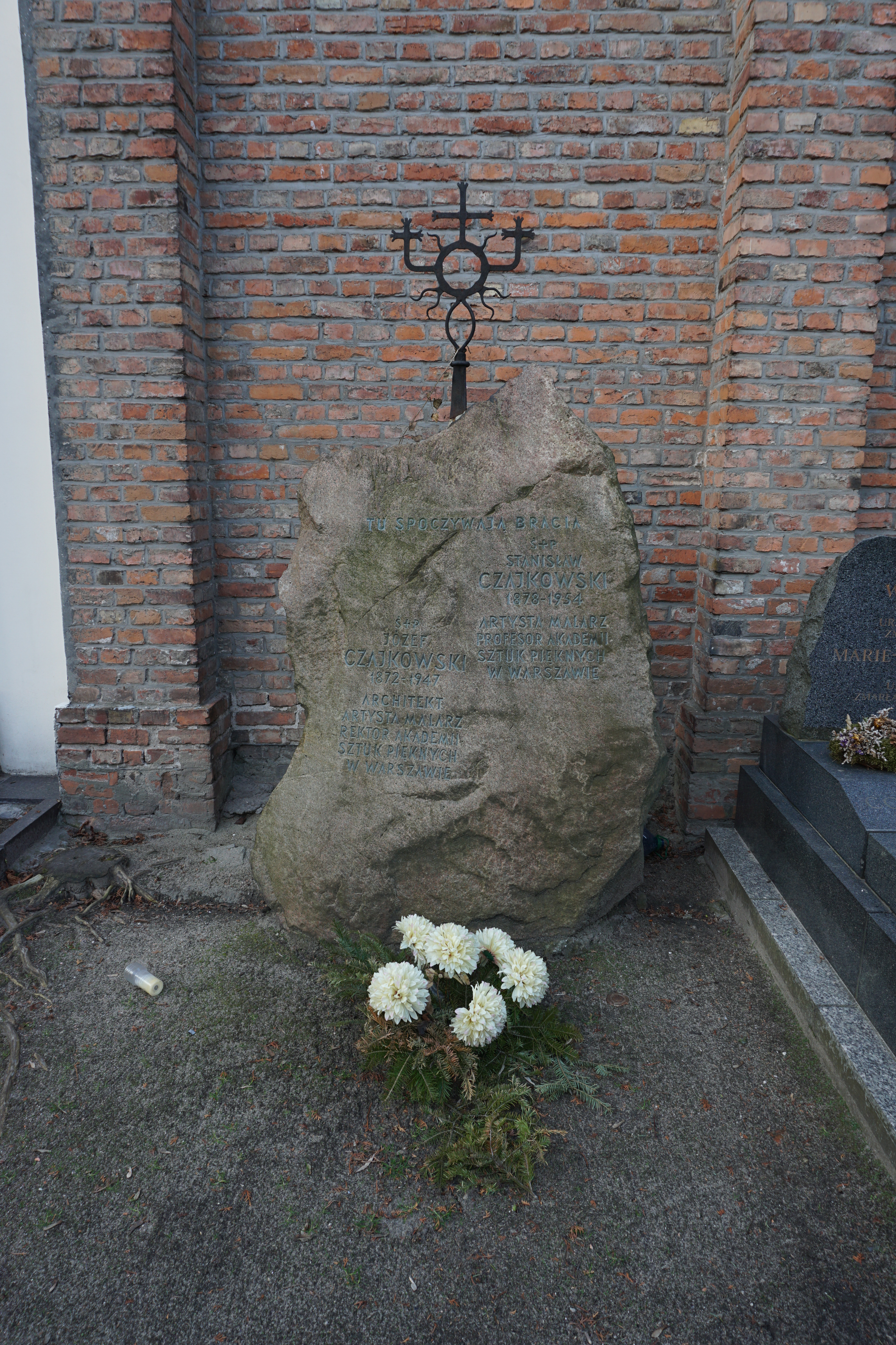 The grave of Józef Czajkowski at the Powązki Cemetery (Avenue of Deserved, grave 29, 30)